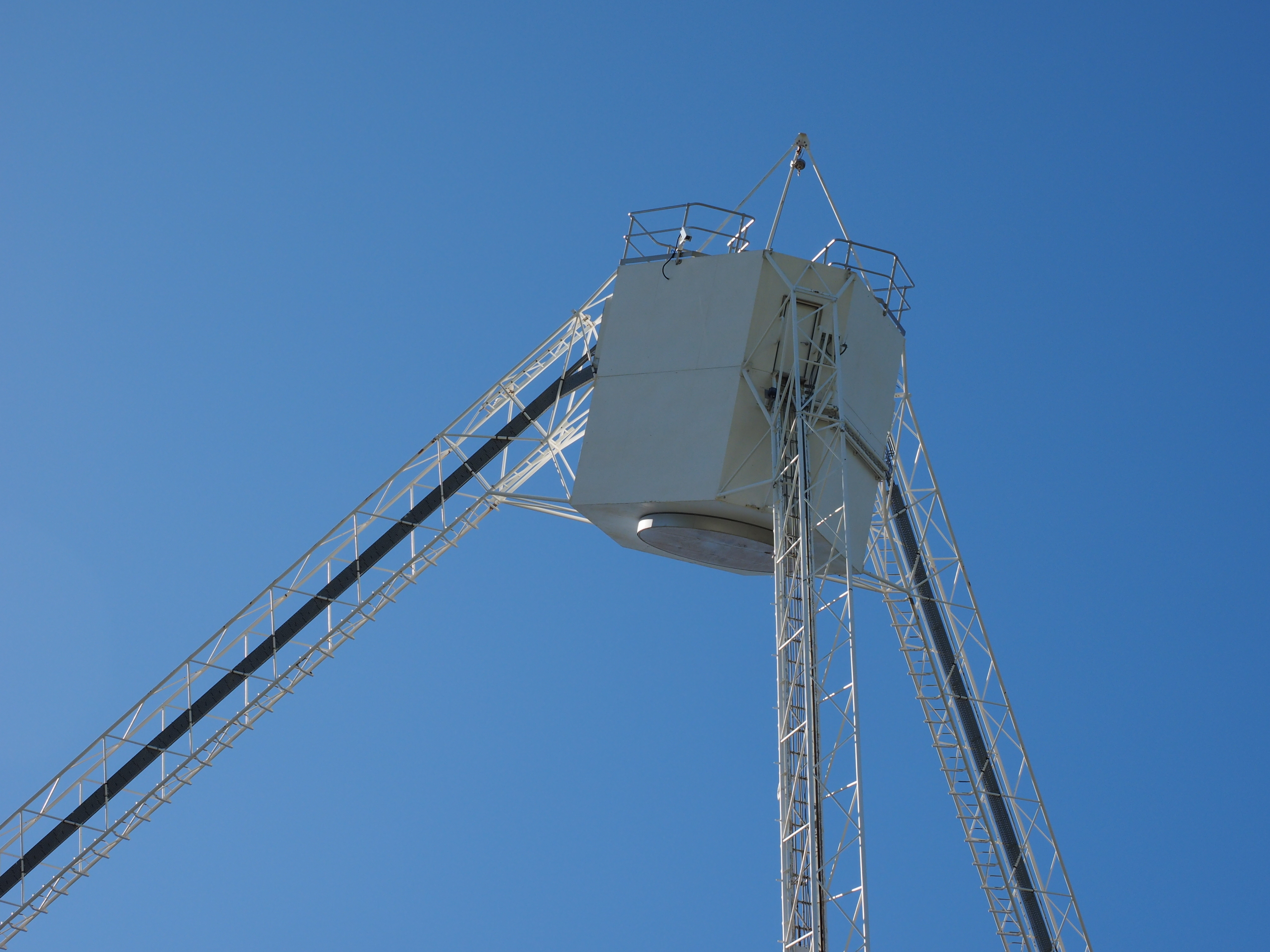 Parkes Radio Telescope's focus cabin. The cabin houses the telescope's receivers.